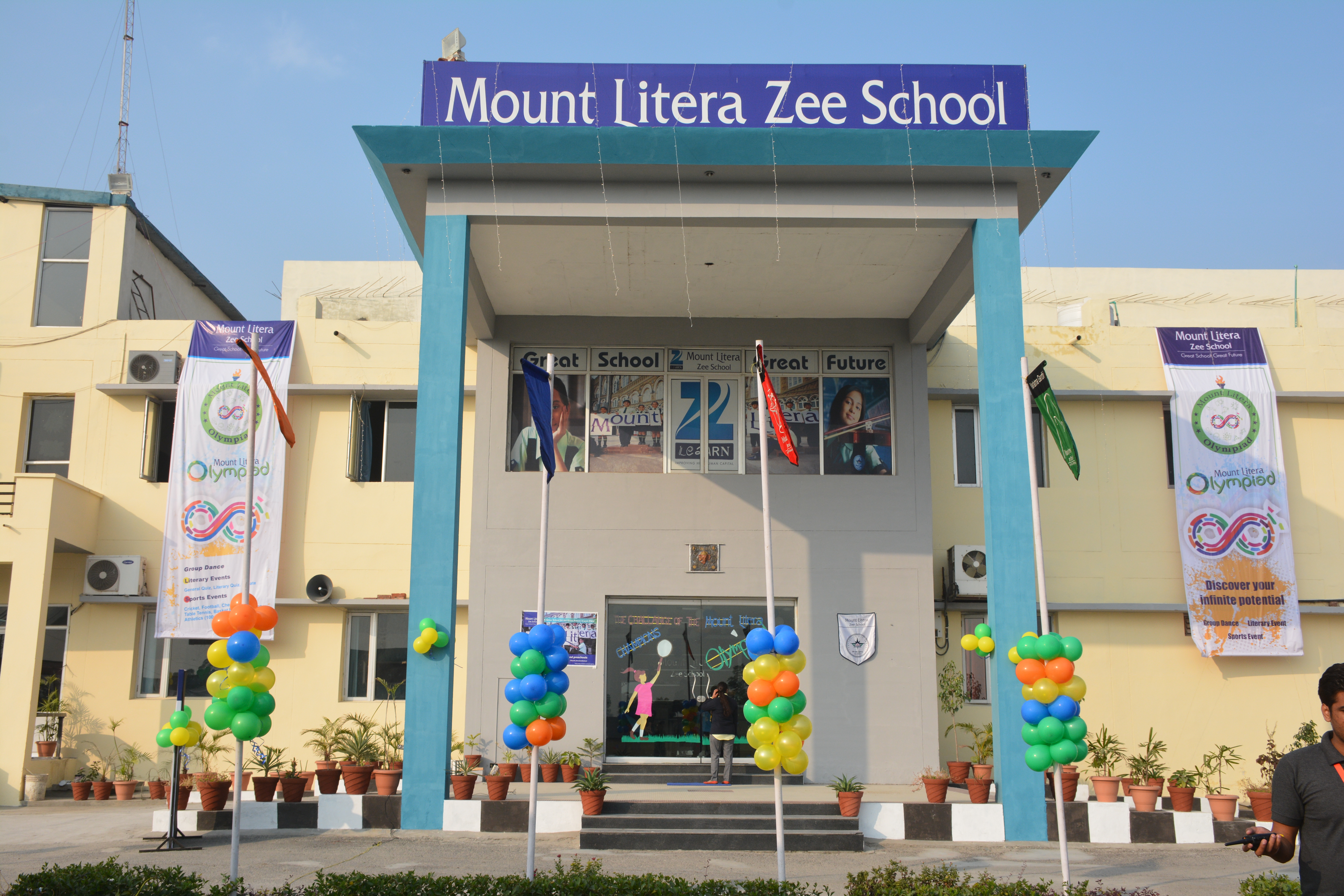 Mount Litera Zee School Moga front Building elevation Photo